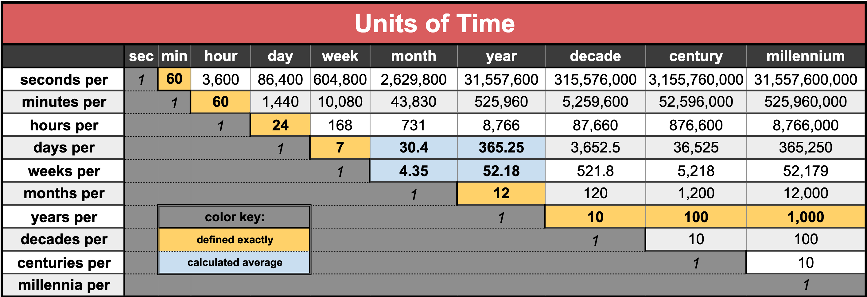 The common units of time -- from seconds to millennia -- are numerically displayed relative to each other (ie, 60 sec per min, 1000 years per millennium).